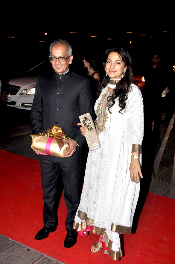 Juhi Chawla at Karan Johar's 40th birthday bash at Taj Lands End